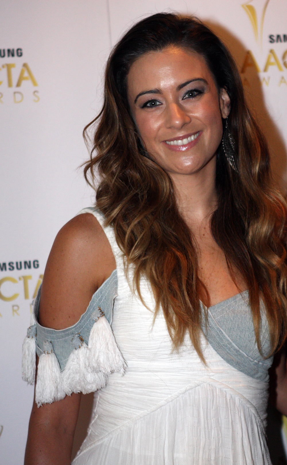 Libby MunroThe 1st AACTA Awards were presented at the Sydney Opera House on 31 January 2012. The ceremony was preceded by a luncheon at the Westin Hotel in Sydney on 15 January 2012.